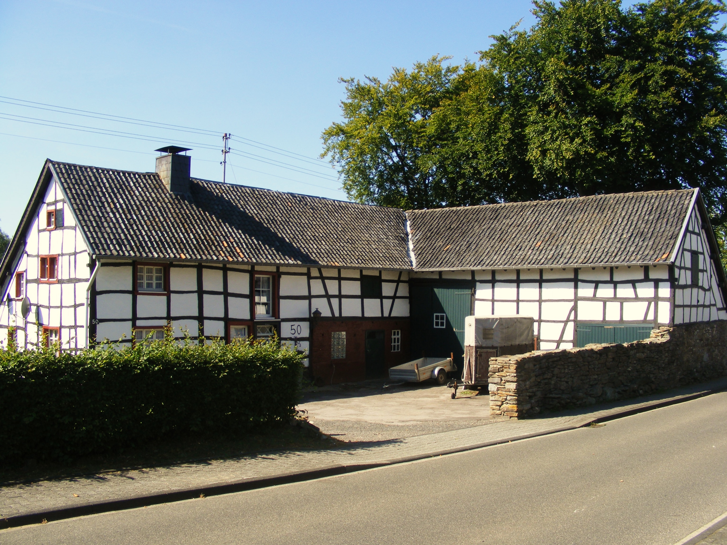 This is a photograph of an architectural monument., no. 137